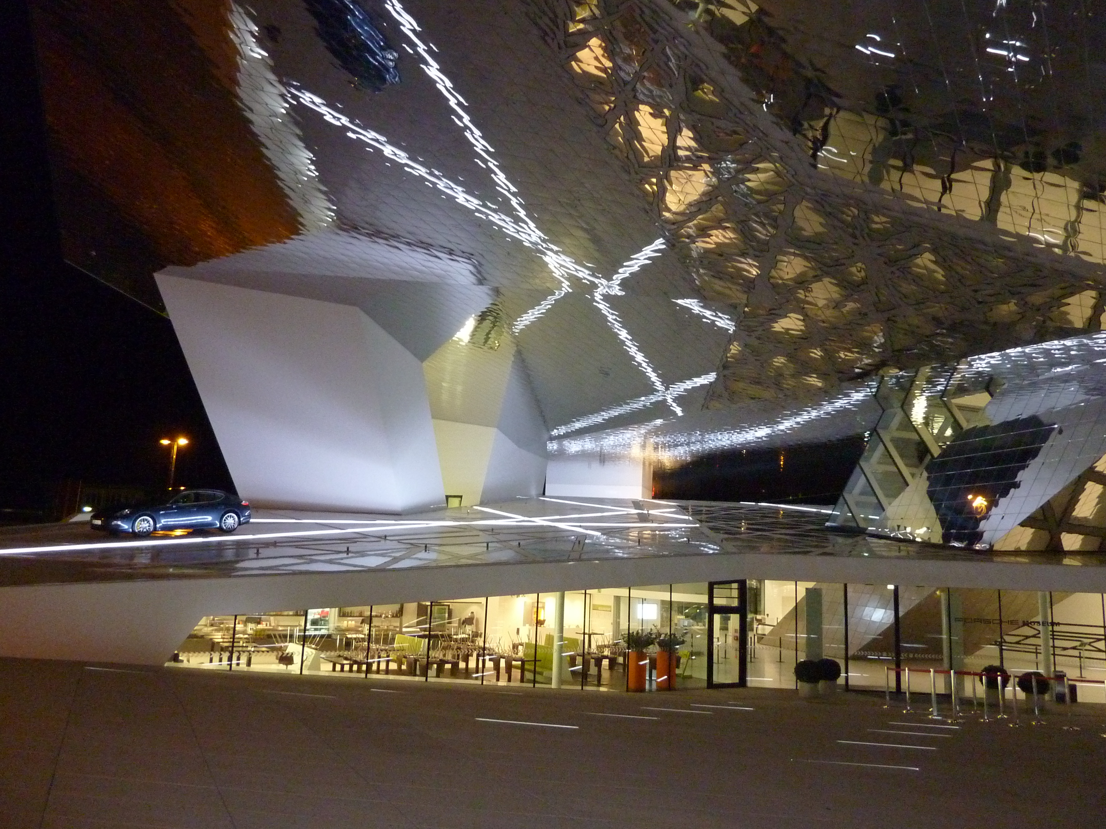 Porsche Museum in Stuttgart at night with reflecting fassade